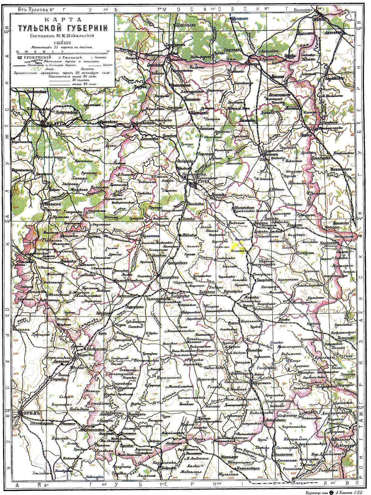 Map of Tula governorate of Russian Empire